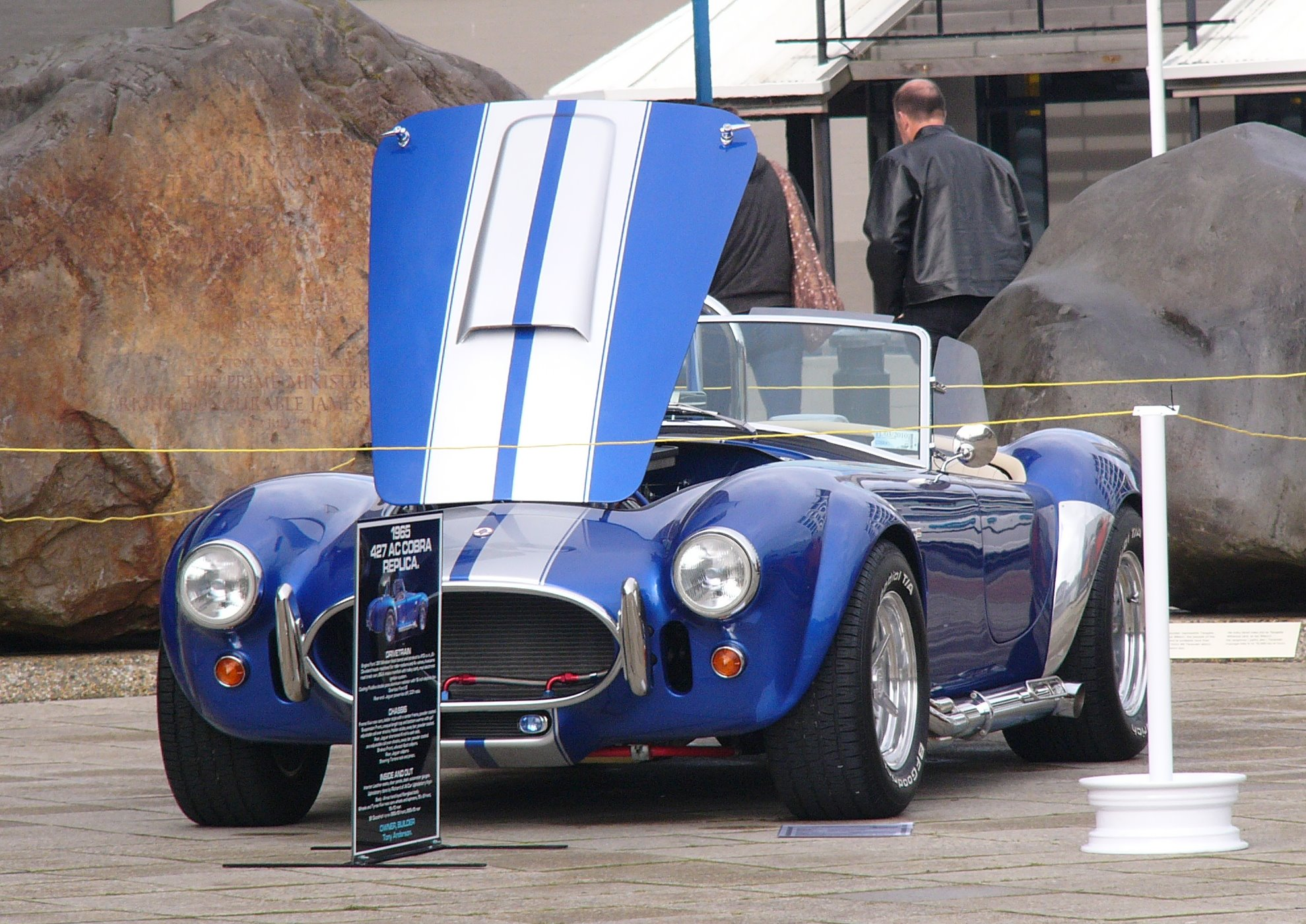 Photos taken at TePapa, Museum of New Zealand, Wellington